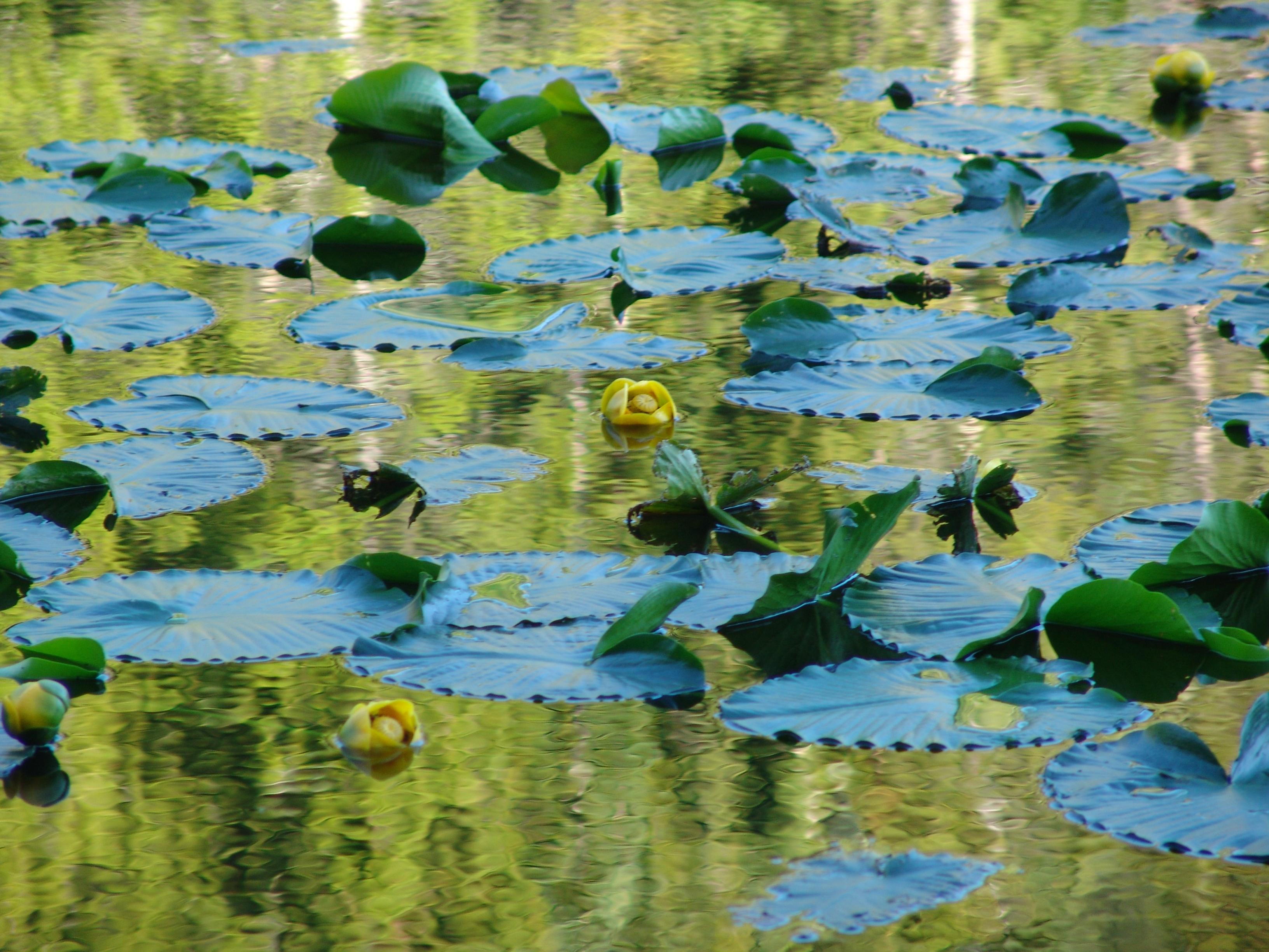 Nuphar polysepala in Lilly Lake, near the Bear Lake in Colorado.